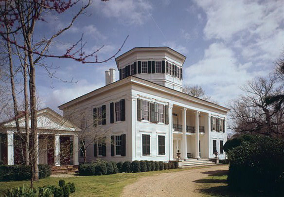 Waverley, Waverley Road, West Point vicinity (Clay County, Mississippi). (cropped)